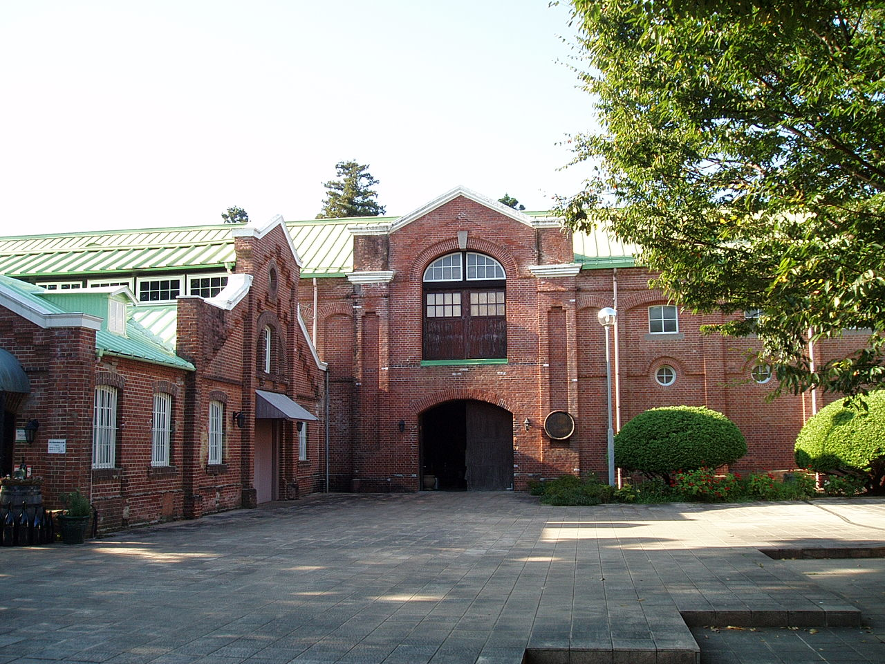 The Memorial Museum of Denbei Kamiya (1856—1922), the founder of the Chateau Kamiya.Built in 1903 as the fermentation building of the winery.Located in Ushiku, Ibaraki, Japan.